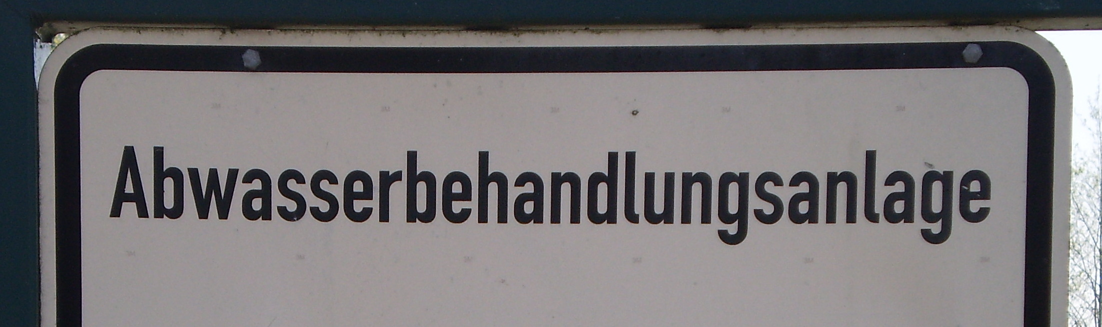 Sign for German wastewater treatment plant